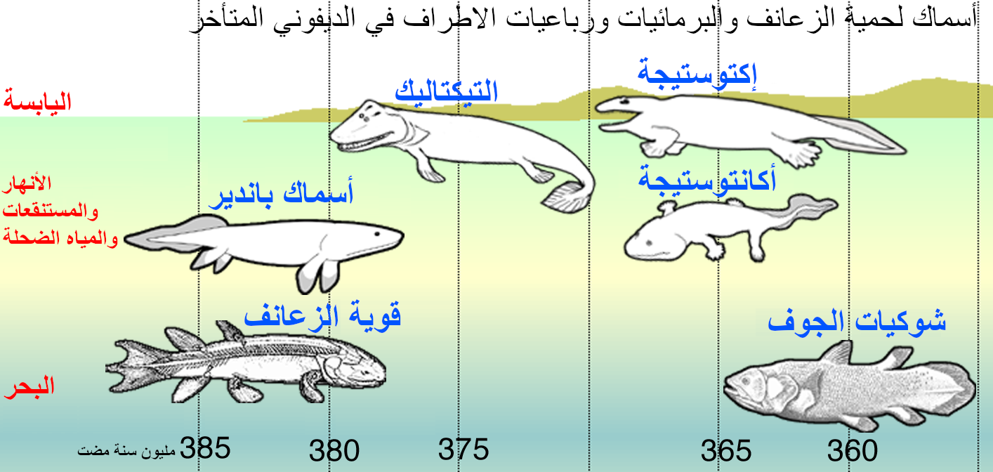 Late Devonian vertebrate speciation; descendants of pelagic lobe-finned fish including early tetrapods as well as other lobe-finned fish.